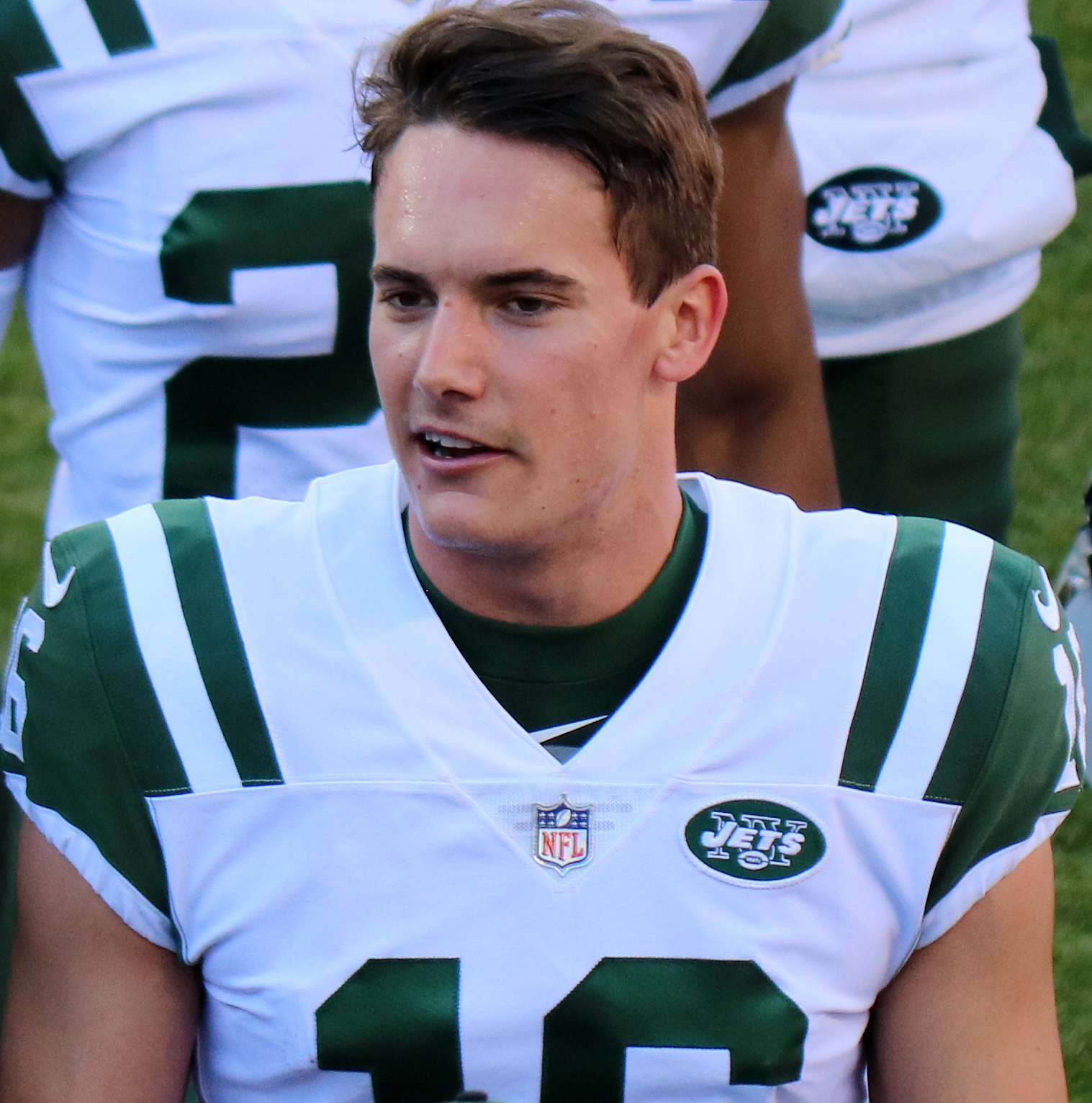 Chad Hansen, a National Football League player.